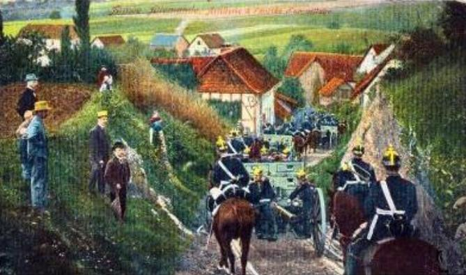 A battery of German field artillery entering a French village in the Franco-Prussian War